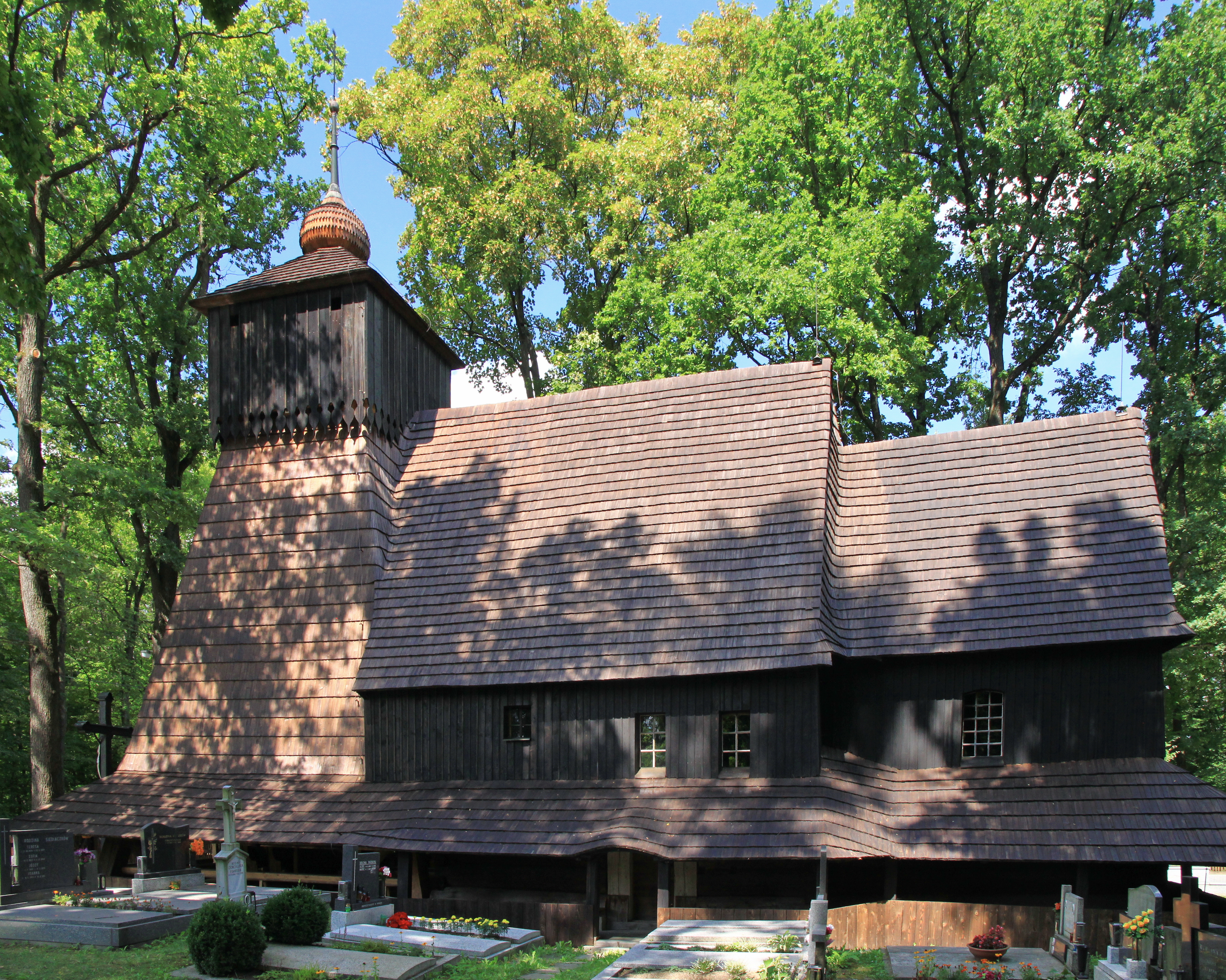 Corpus Christi church, Guty, Třinec. Moravian-Silesian Region, Czech Republic.